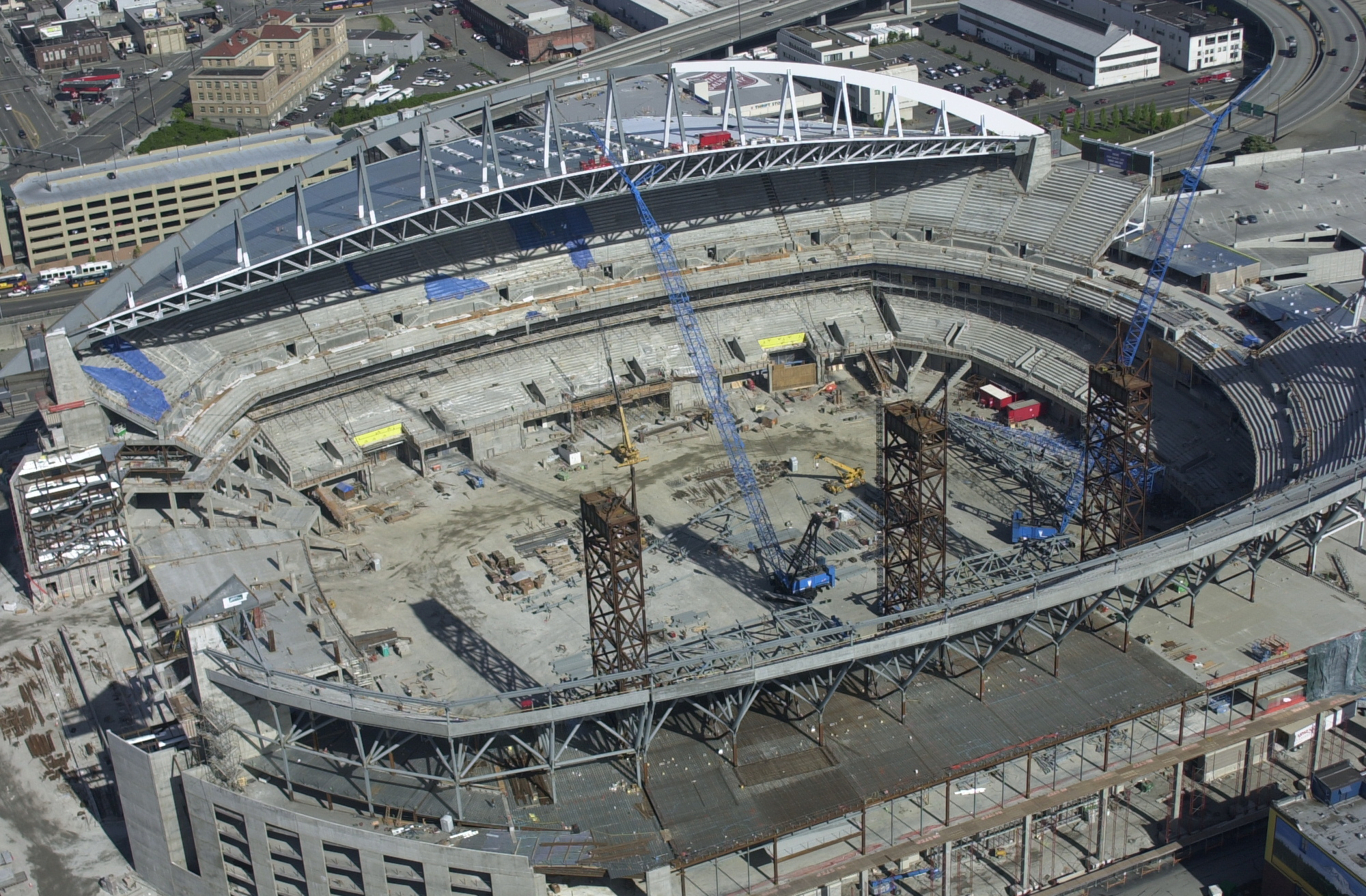 Qwest Field (originally Seahawks Stadium) under construction, 2001. Near upper left is a corner of the International District and, notably, the U.S. Immigrant Station and Assay Office, which is on the National Register of Historic Places.